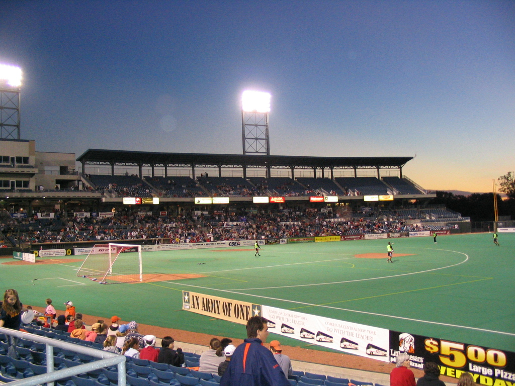 photo of a Syracuse Salty Dogs vs. Atlanta Soccer match at Alliance Bank Stadium in Syracuse, NY, taken by me on June 11, 2004